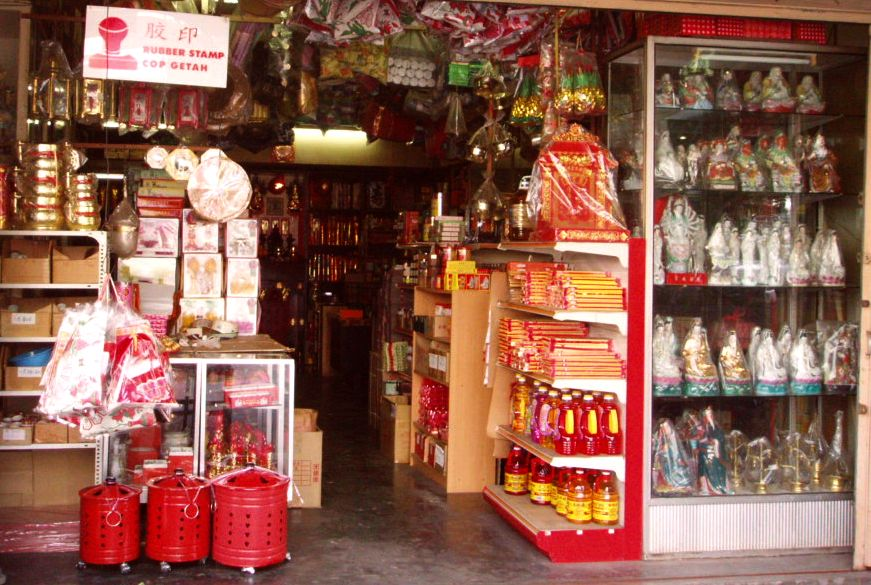 Picture of Gods Material Shop of Malaysian Chinese GOdsMaterialShop001.jpg